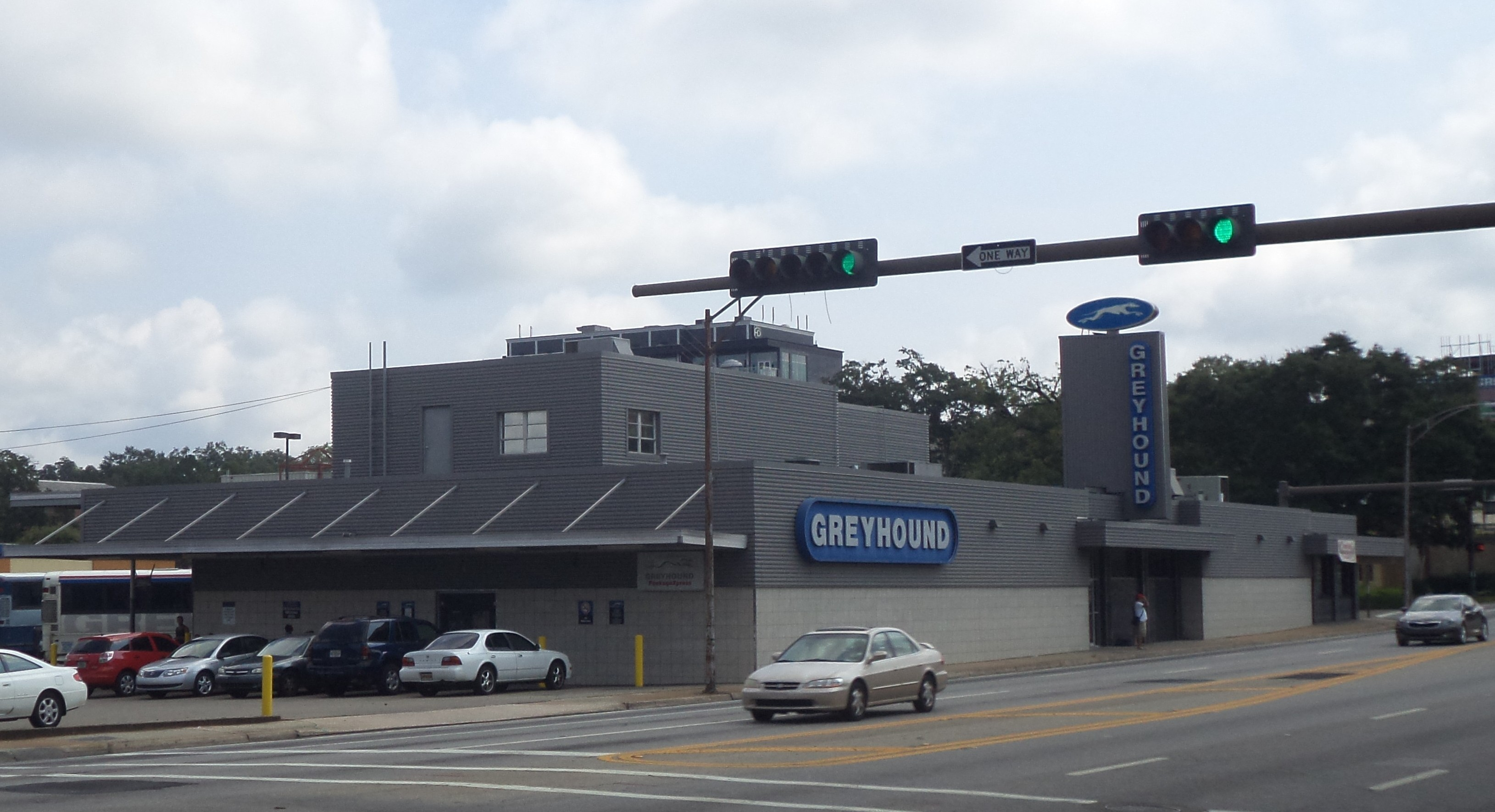 Greyhound Bus Station Tallahassee, Leon County, Florida (cropped version)